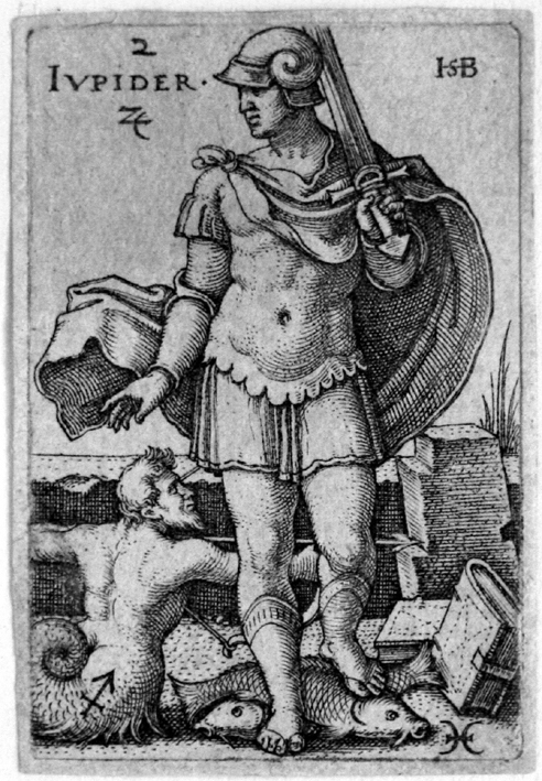 Beham, (Hans) Sebald (1500-1550): Jupiter, from The Seven Planets with the Signs of the Zodiac, 1539 (Bartsch 115; Pauli, Holl. 117), second state of five, trimmed just outside the platemark.